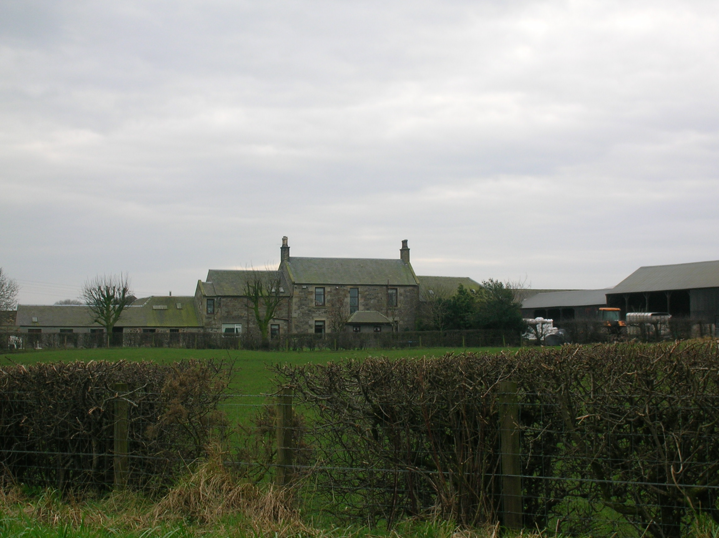 West Gatehead farm in North Ayrshire. Close to Laigh Milton viaduct. Scotland. 2007.